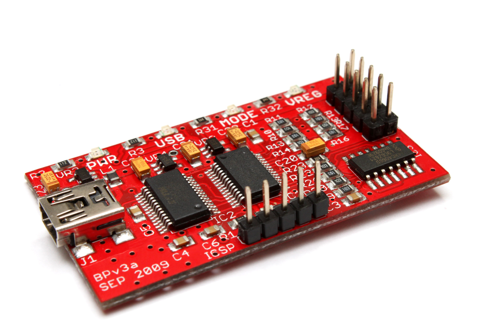 Bus Pirate version 3a -- Created by Dangerous Prototypes, Fulfillment by Seeed Studio